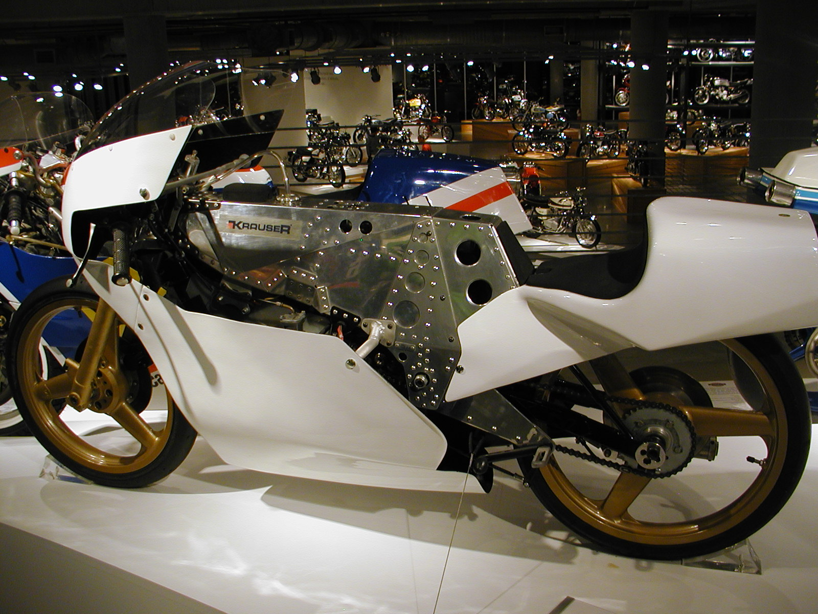 Barber Motorcycle Museum - October 22, 2006 (142) 1983 Krauser 80 GP / More Description is here